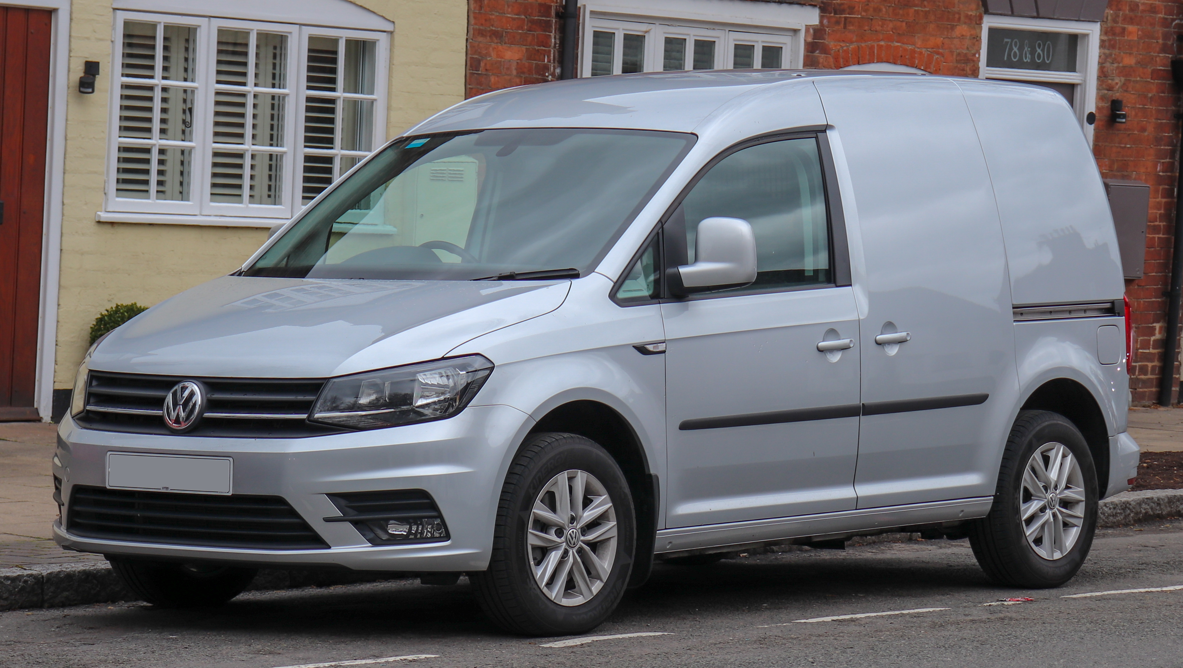 2018 Volkswagen Caddy C20 Highline TDi 2.0 Front Taken in Warwick